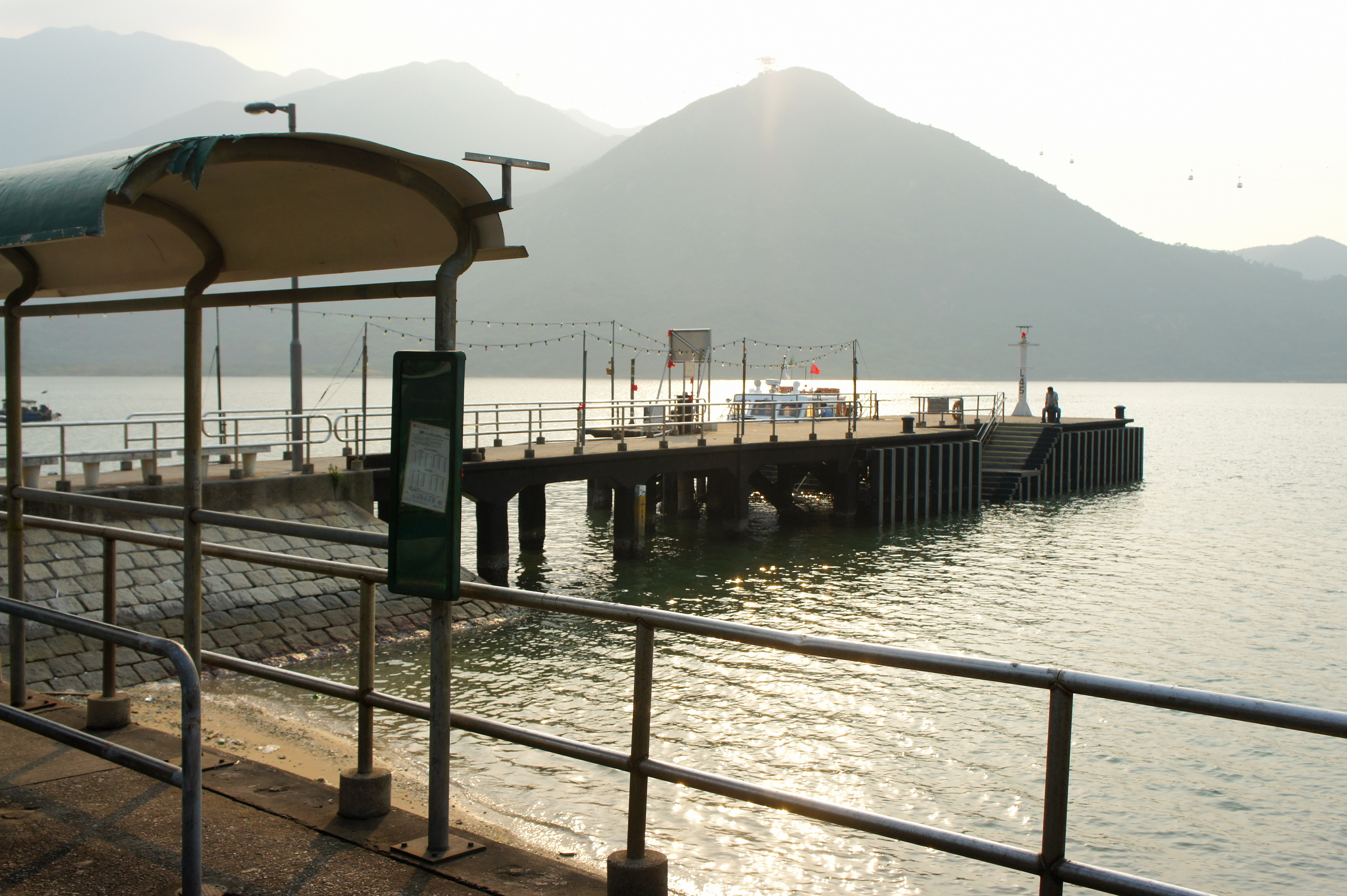 The old NLB Route 3M Tung Chung Old Pier Bus Terminal (no longer in use) (left) and the Tung Chung Old Pier (middle), Tung Chung, New Territories, Hong Kong.